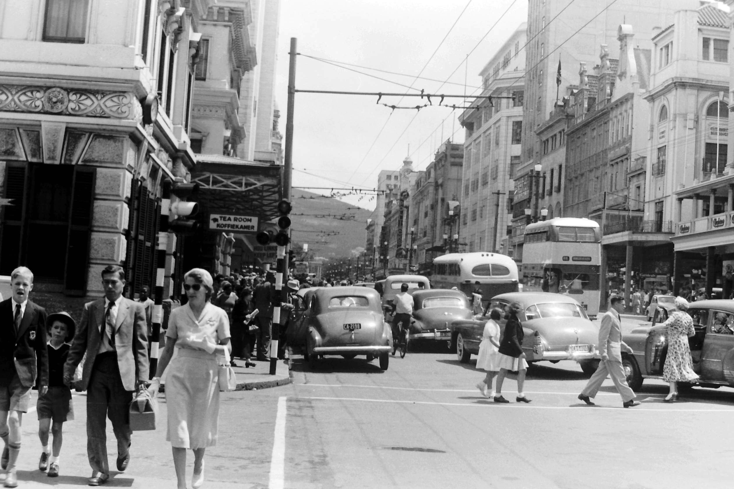 B&W photo of a busy Adderley Street in the 50's